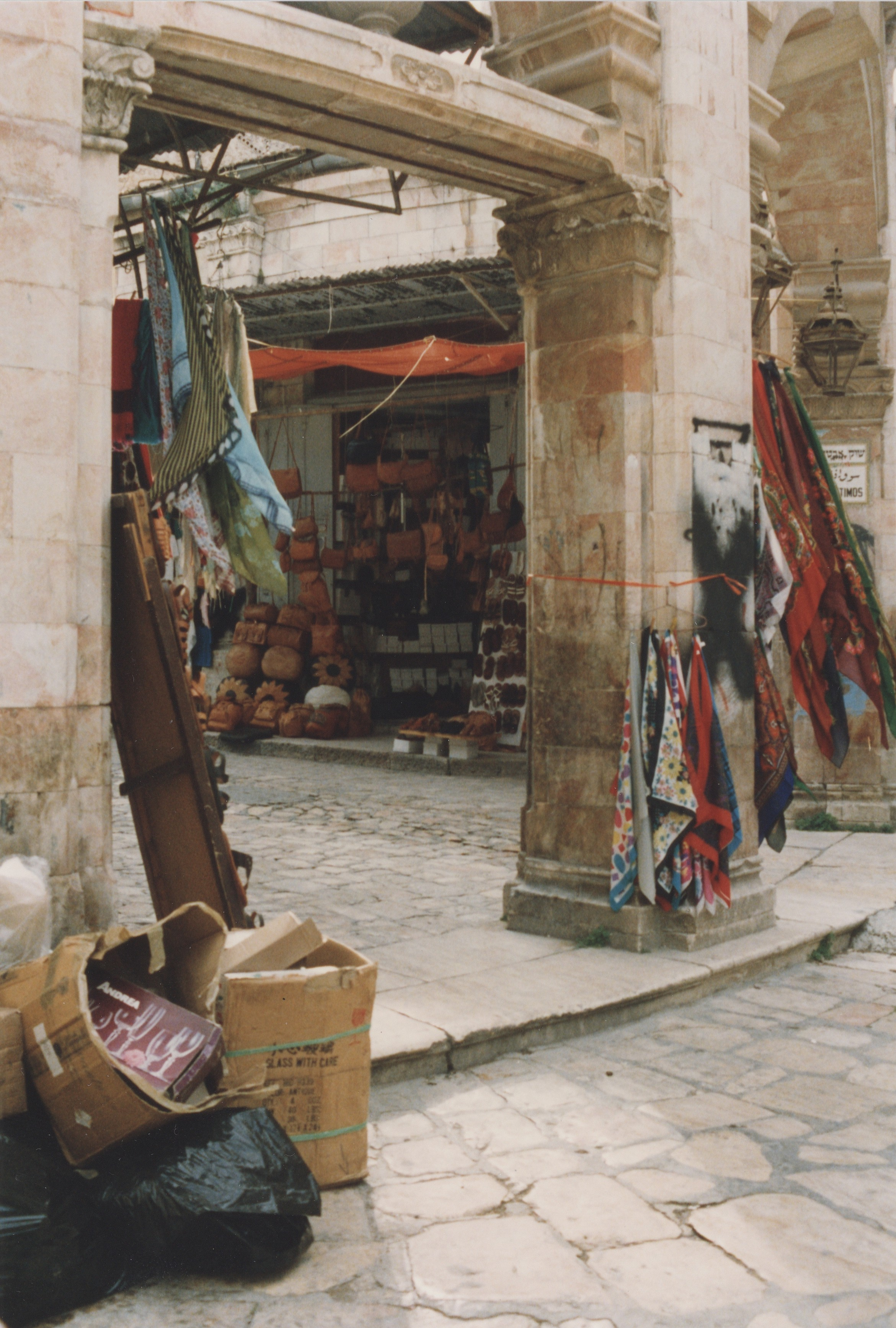 Jerusalem old city (Muristan), architectur with Meleke limestone